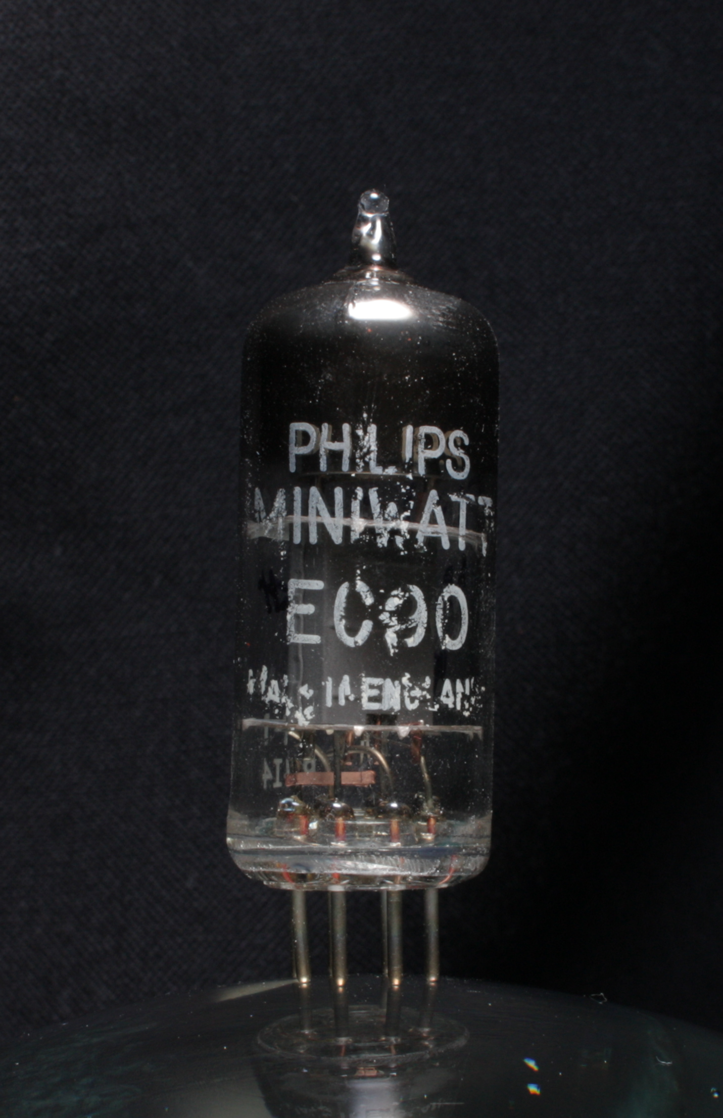 Philips Miniwatt EC90 vacuum tube